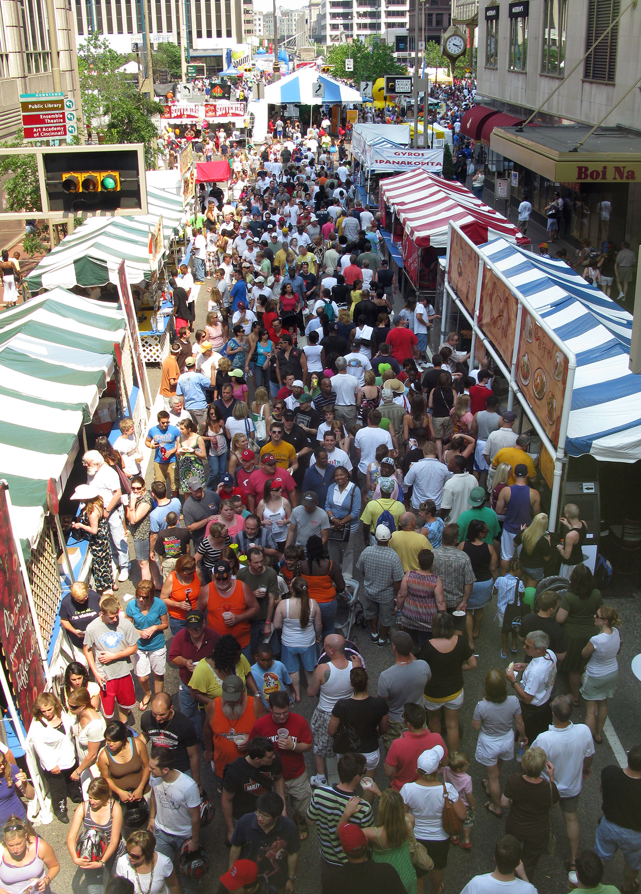 Visitors of Taste of Cincinnati 2009 traverse 5th Street between Vine and Race Streets.